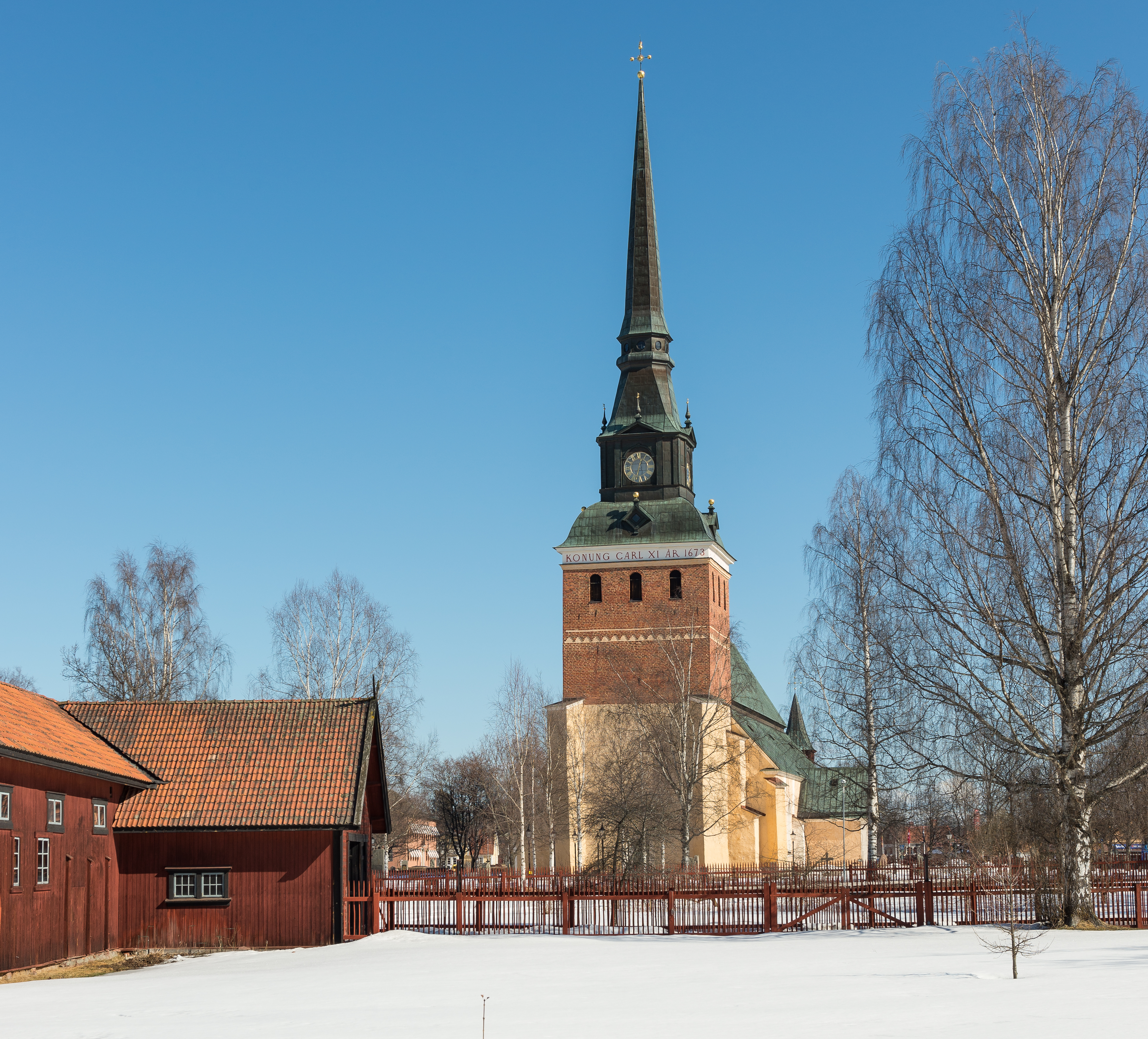 Mora kyrka (church), Mora, Sweden. Mora Parish, Diocese of Västerås, Church of Sweden.